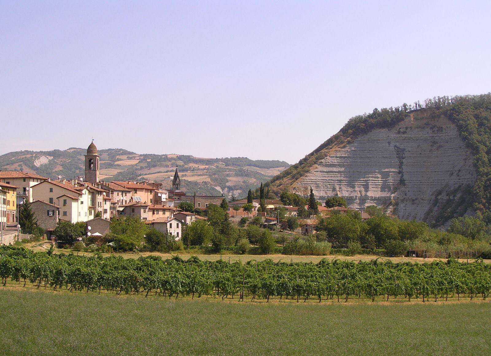 View of Galeata taken from the Church of Madonna dell'Umiltà.